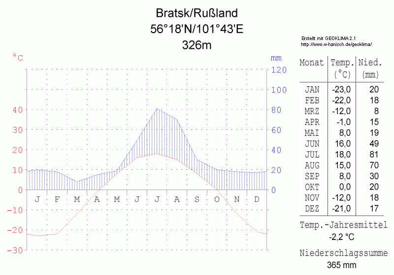 climate chart in the format by Walther and Lieth, metric, °Celsisus and millimeters, made with Geoklima 2.1